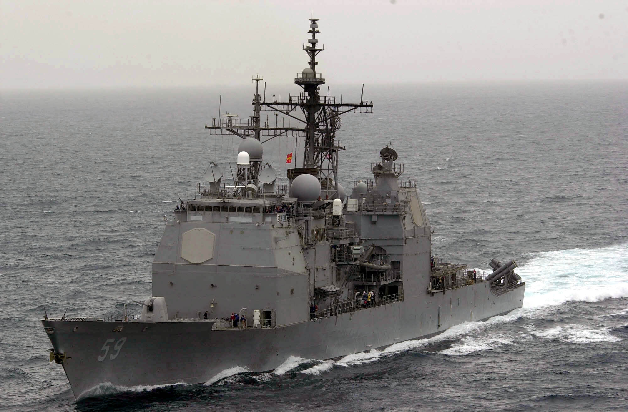 030422-N-9319H-005 Arabian Gulf -- The guided missile cruiser USS Princeton (CG 59) passes by in preparation for a Connected Replenishment (CONREP) with the fast combat support ship USS Bridge (AOE 10) and USS Nimitz (CVN 68). Nimitz Carrier Strike Group and Carrier Air Wing Eleven (CVW-11) are deployed in support of Operation Iraqi Freedom. Operation Iraqi Freedom is the multi-national coalition effort to liberate the Iraqi people, eliminate Iraq’s weapons of mass destruction, and end the regime of Saddam Hussein.